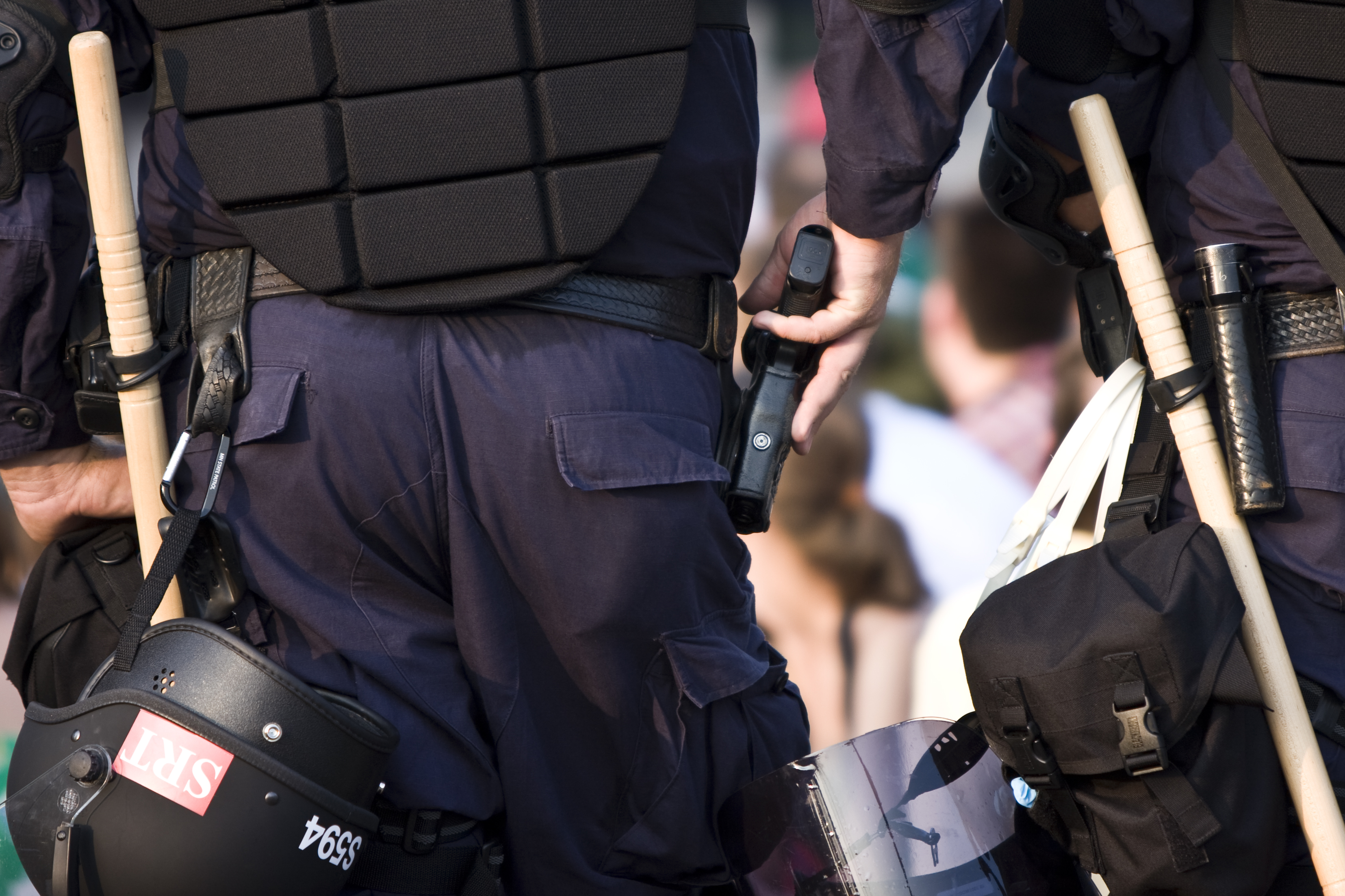 St Paul Police SRT Indexing Firearm in Holster gun RNC 2008 Minnesota 2821768676 o